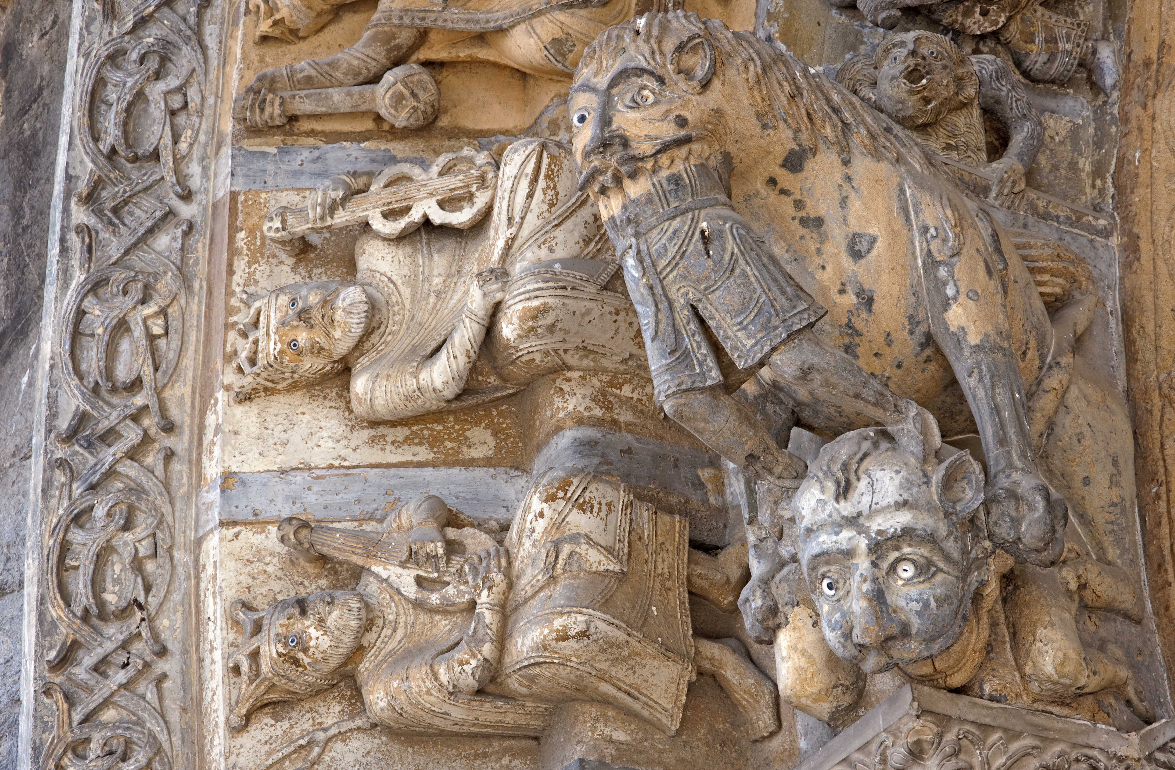 Detail of the portal of Oloron Cathedral ('Cathédrale Sainte-Marie d'Oloron'), Oloron-Sainte-Marie, Pyrénées-Atlantiques, France: the “Man-Swallower” and two of the 24 Elders, holding musical instruments.